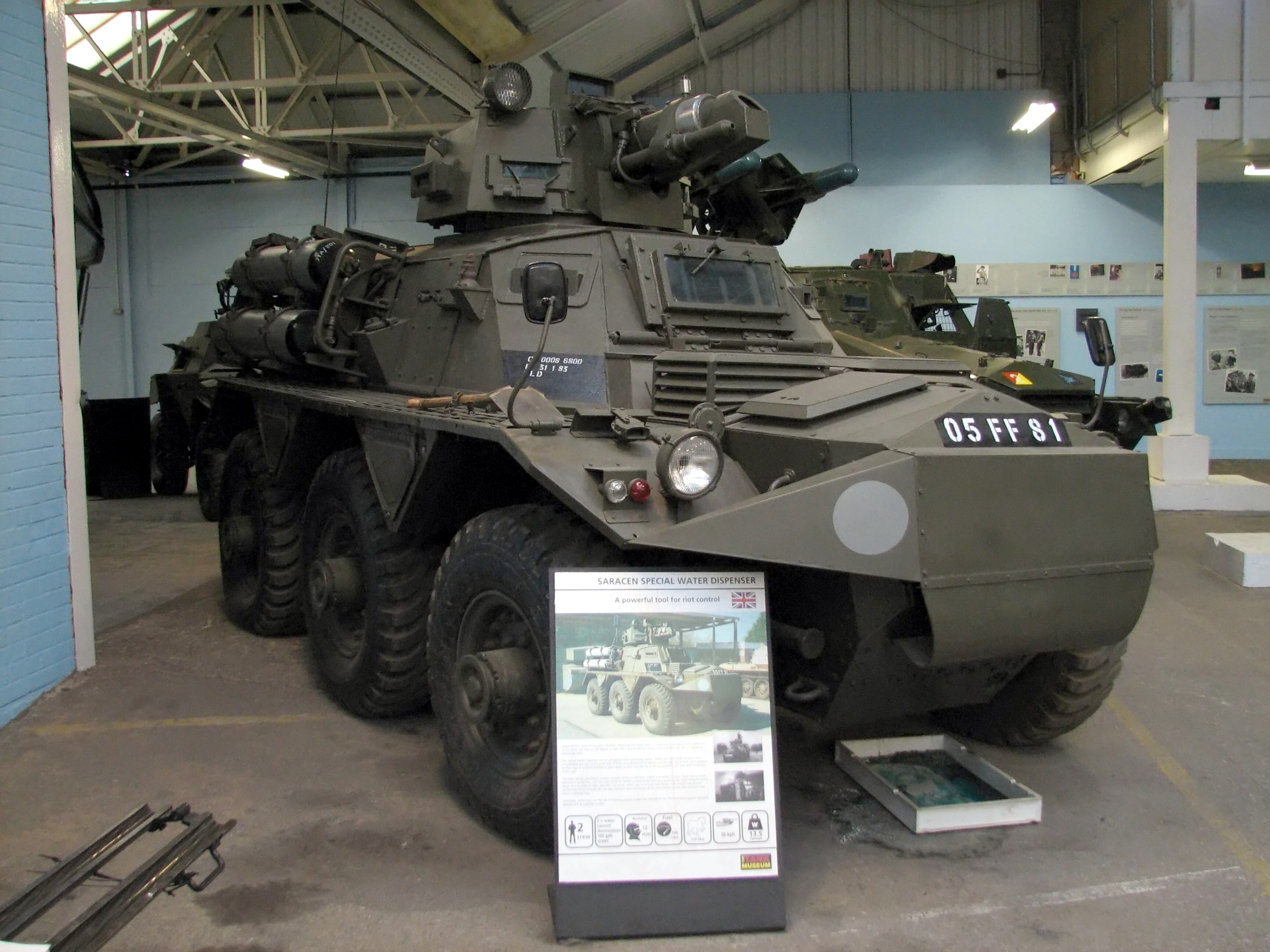 British Alvis Saracen Water Dispenser based on MK 3 at Bovington Tank Museum